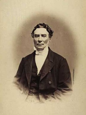 Sophus August Vilhelm Stein (1797-1868), Danish anatomist and surgeon